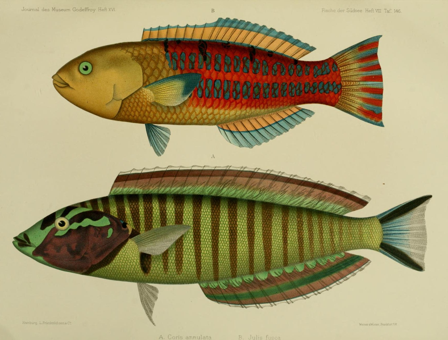 Caption: A Coris annulata = Hologymnosus annulatus B Julis fusca = Thalassoma fuscus = Thalassoma trilobatum